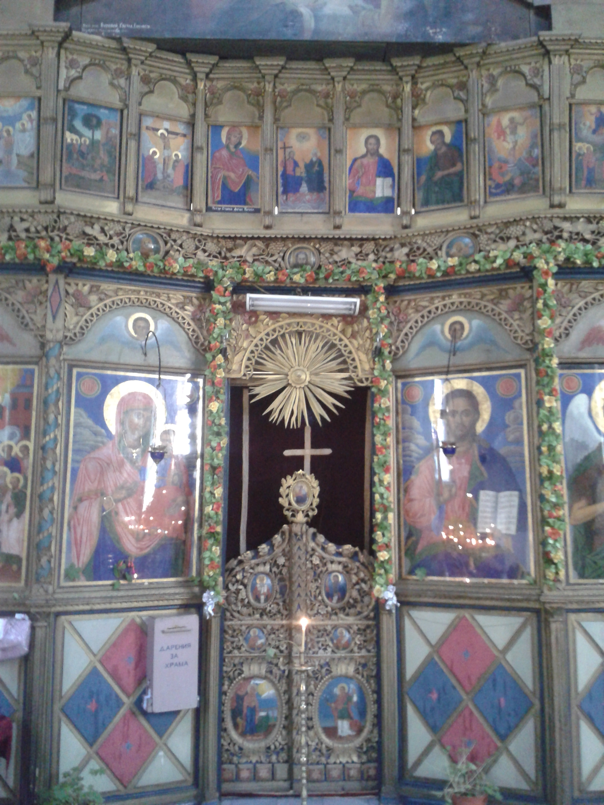 Dormition Church in Ladzjene, Velingrad.